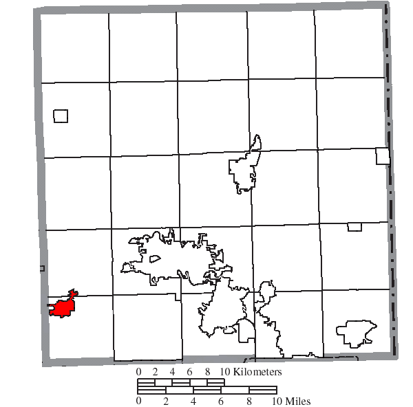 Map of the municipal and township boundaries of Trumbull County, Ohio, United States, as of the 2000 census, with the location of the village of Newton Falls highlighted. Township borders are shown only in unincorporated areas in order to differentiate incorporated and unincorporated areas more clearly.